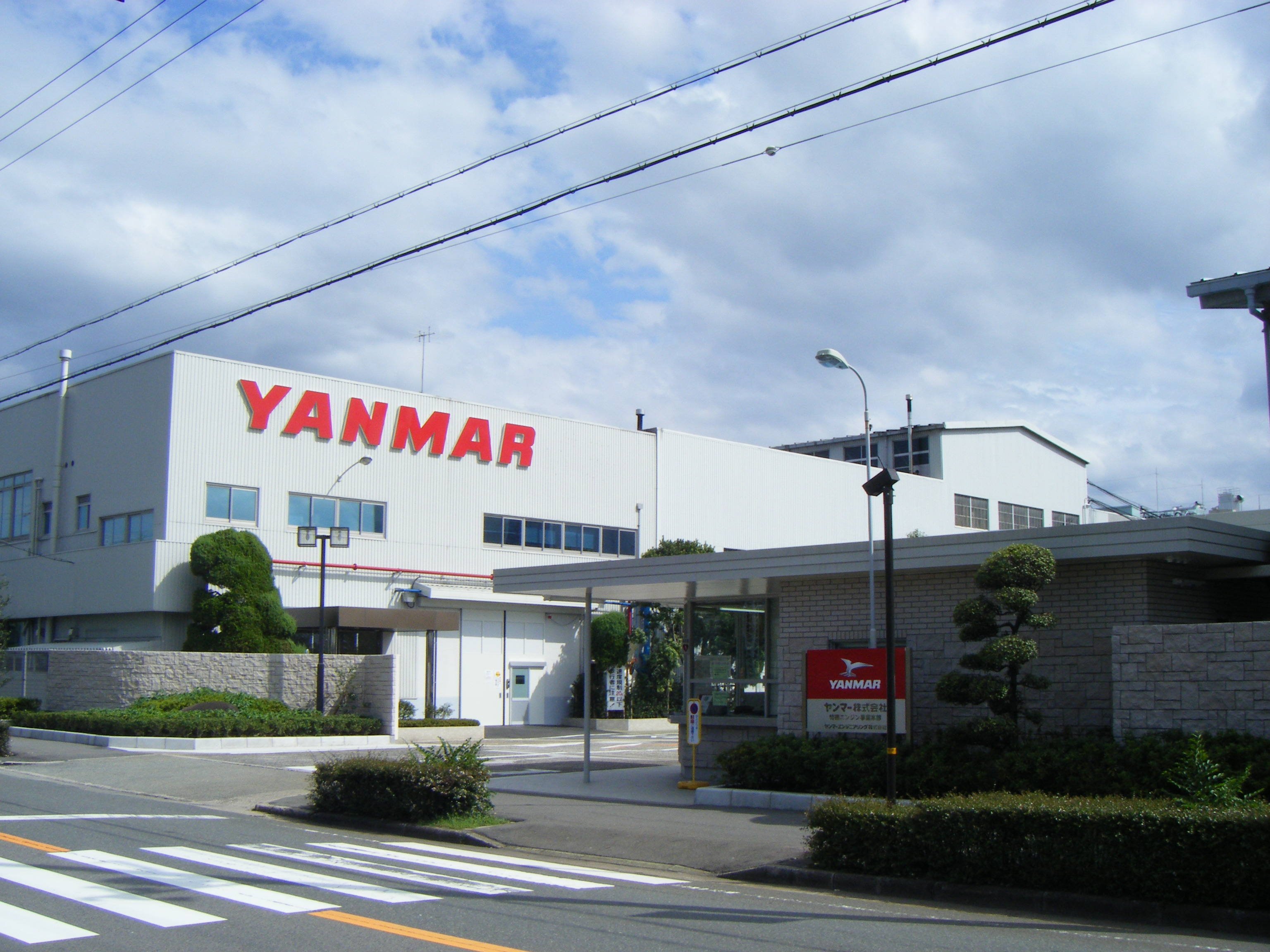 Amagasaki Factory of YANMAR Corp.